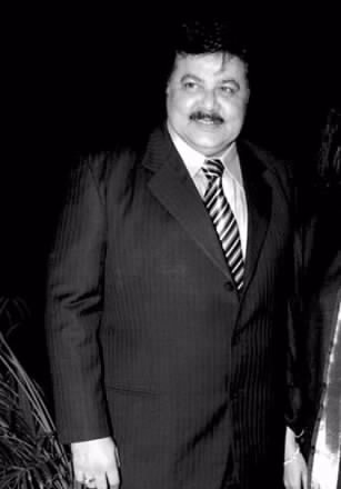 Satish Shah at ITA Awards 2009